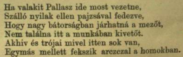 Homer translation of Baksay Sándor